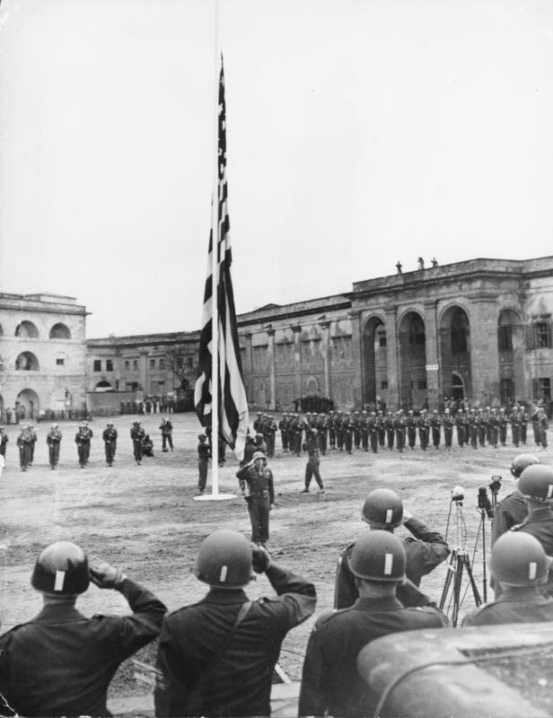 Title: Koblenz, amerikanische Flaggenparade Extra information: Koblenz 1945, amerikanische Flaggenparade auf der Festung Ehrenbreitstein Factual corrections and alternative descriptions are encouraged separately from the original description. Additionally errors can be reported at this page to inform the Bundesarchiv. Original historic description: American flag of last occupation reraised at Coblenz. The same flag of the United States that flow over the Rhine fortress of Ehrenbreitstein when it was the garrison flag of the 4th Division from 1918 to 1923, during the occupation following the last world War, is again raised over the historic fortress in Coblenz by men of the same unit, symbolizing the victorious return of the U.S. Armies to German soil. U.S. Signal Corps Photo ETO-HQ-45-5000 Distributed by U.S. Information Service certified as passed by shaef censor